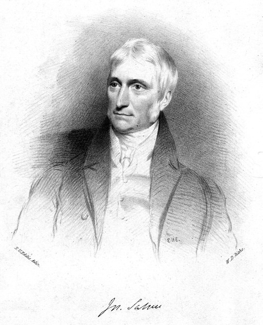 Portrait engraving of the English lawyer and naturalist, Joseph Sabine